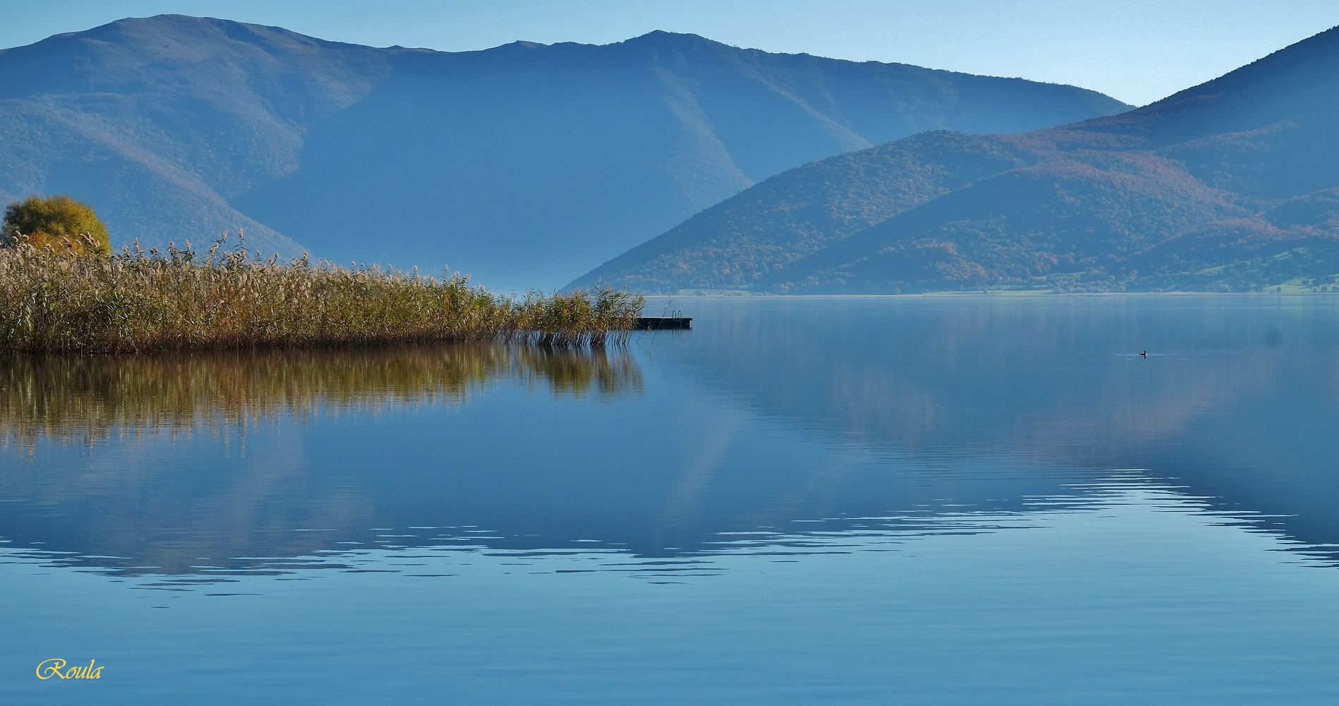 This is a photography of Natura 2000 protected area with ID GR1340001